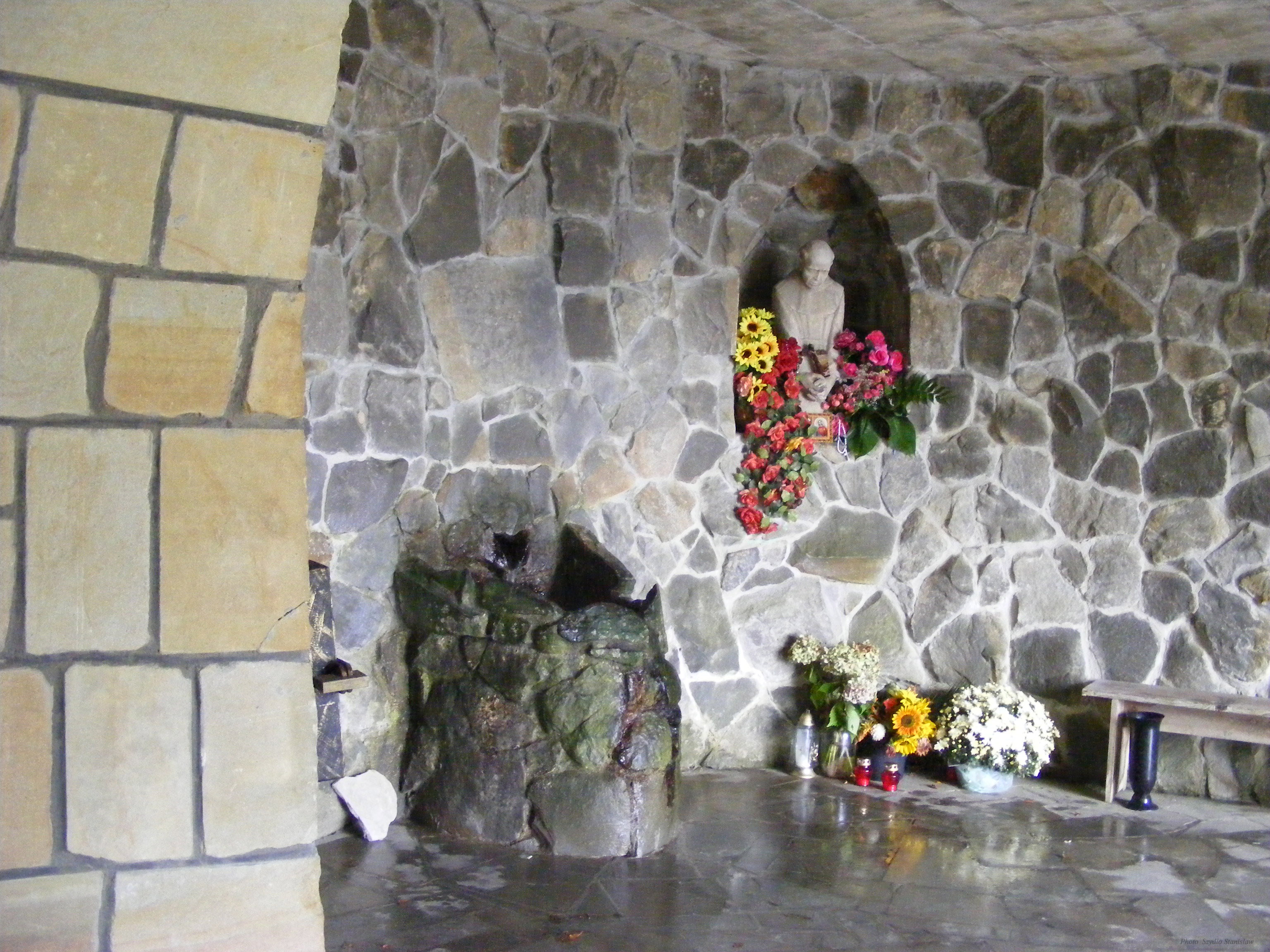 Grotto and spring in the chapel of St. John